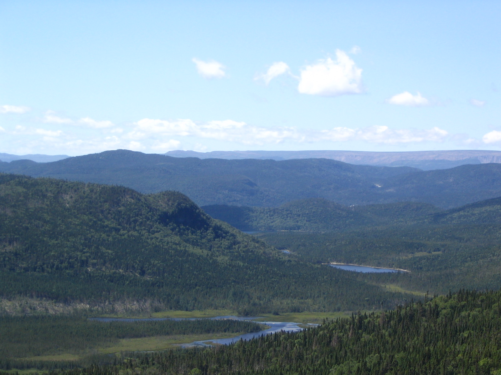 Gros Morne National Park